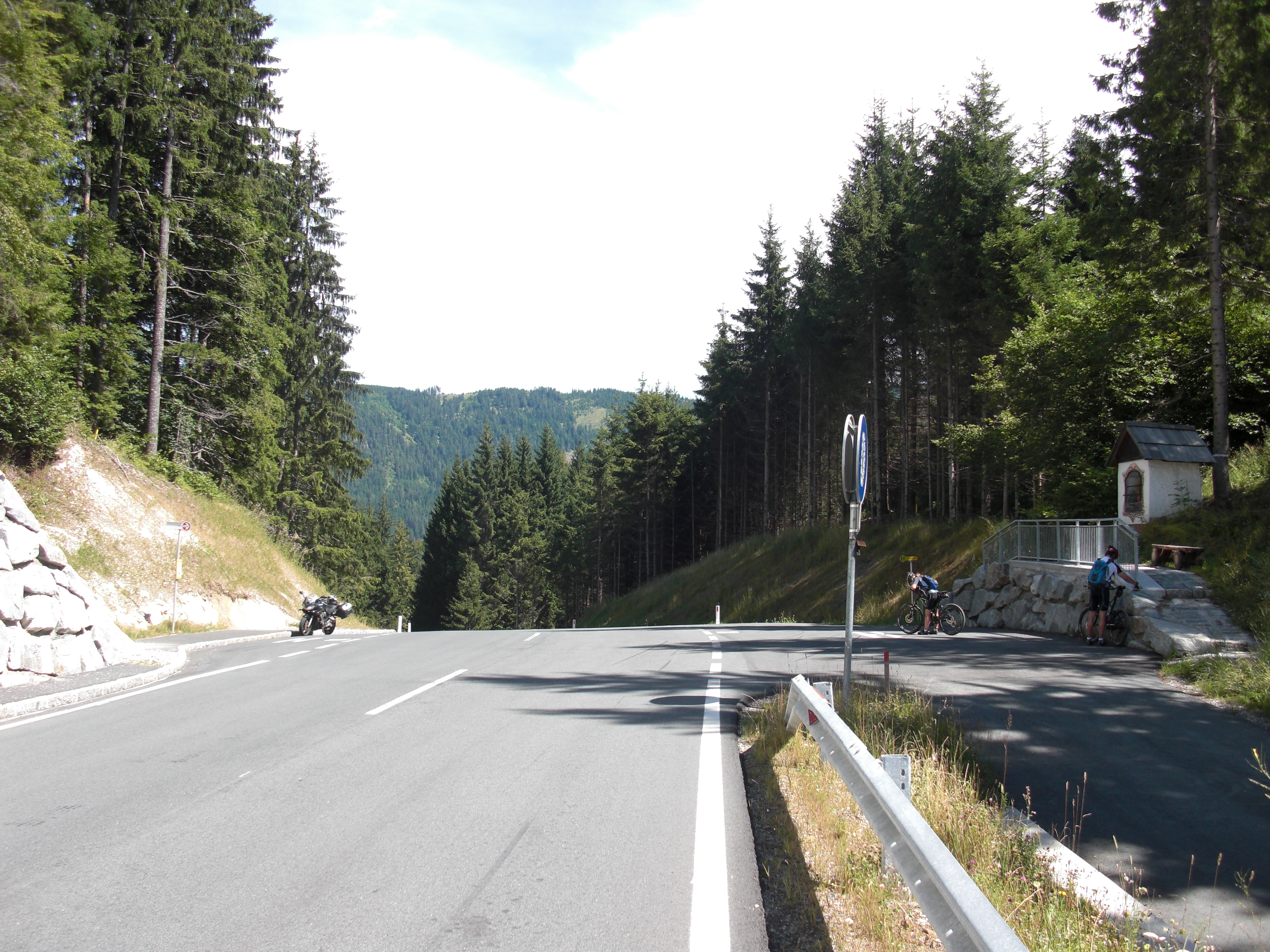 Kreuzbergsattel pass summit